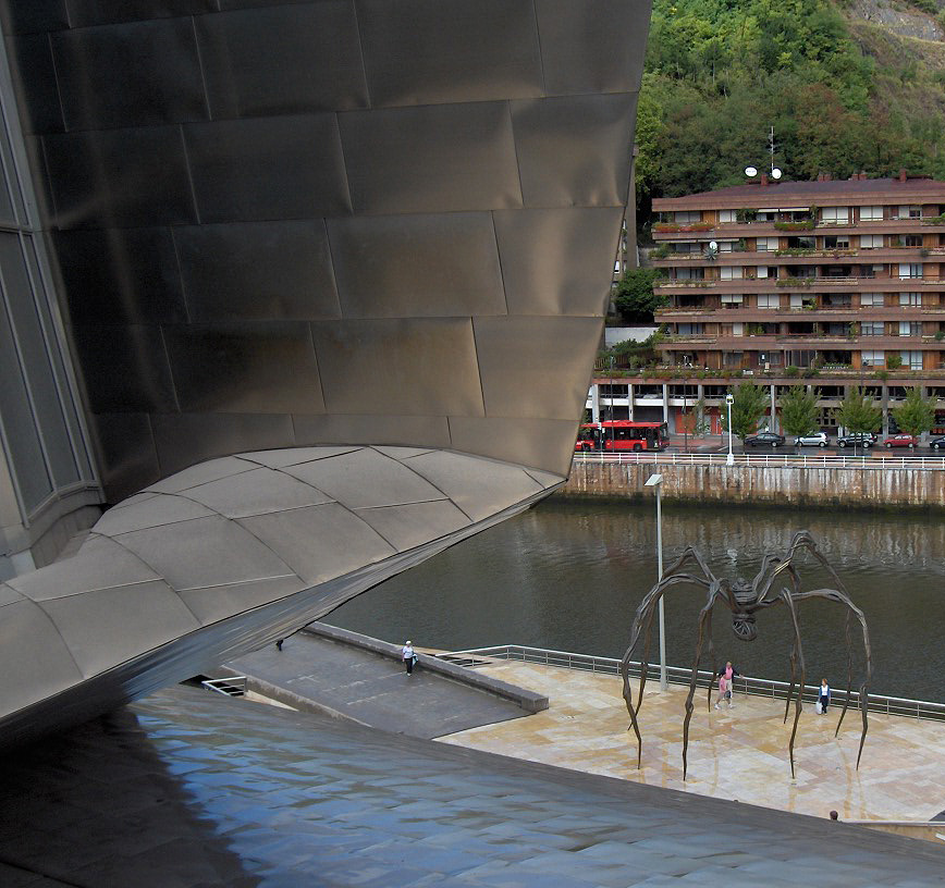 Guggenheim museum in Bilbao, Spain; below : Maman, a huge spider by Louise Bourgeois